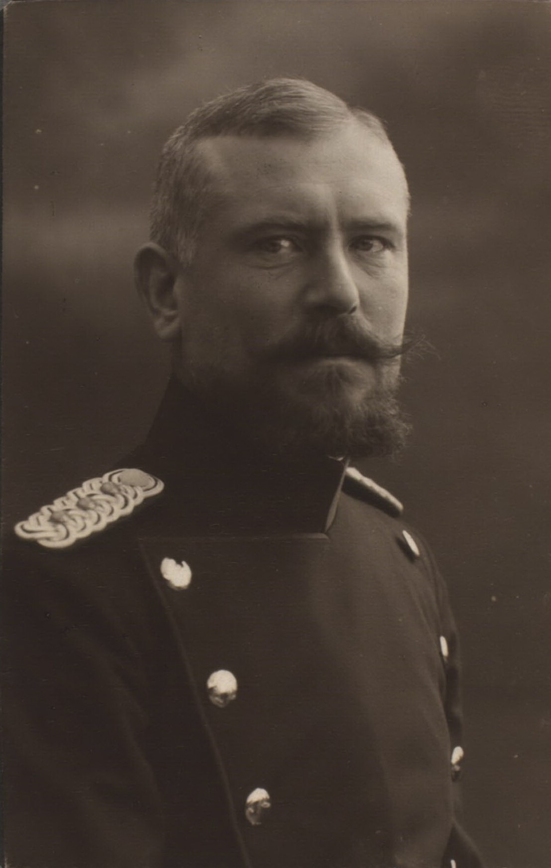 Johan Peter Koch in military uniform